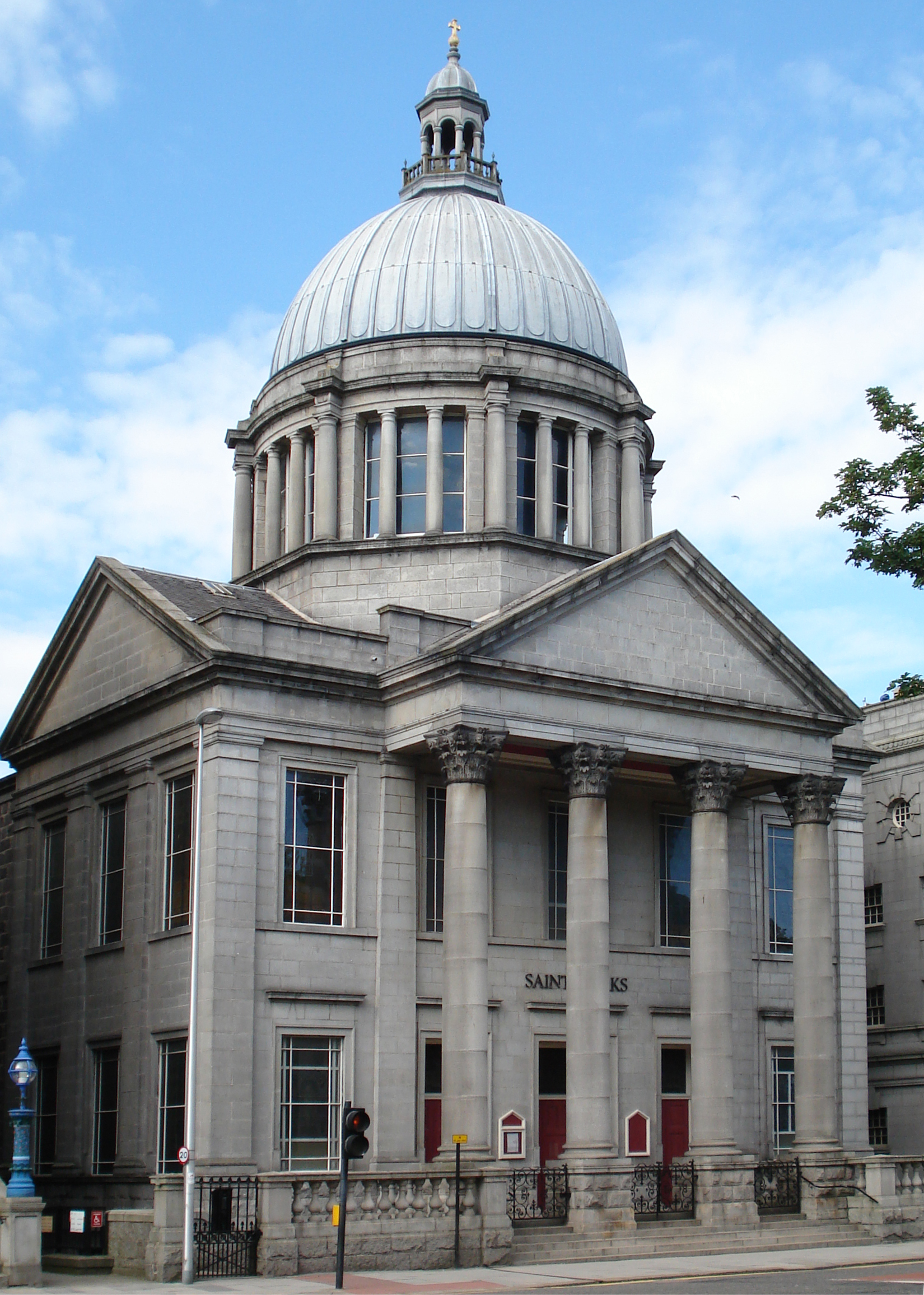 St Mark's Church is in the centre of the Rosemount Viaduct terrace by architect A Marshall Mackenzie (1847-1933) with its giant order quatrostyle Corinthian portico, and dome modelled on St Paul's in London. photo courtesy Jane Cartney